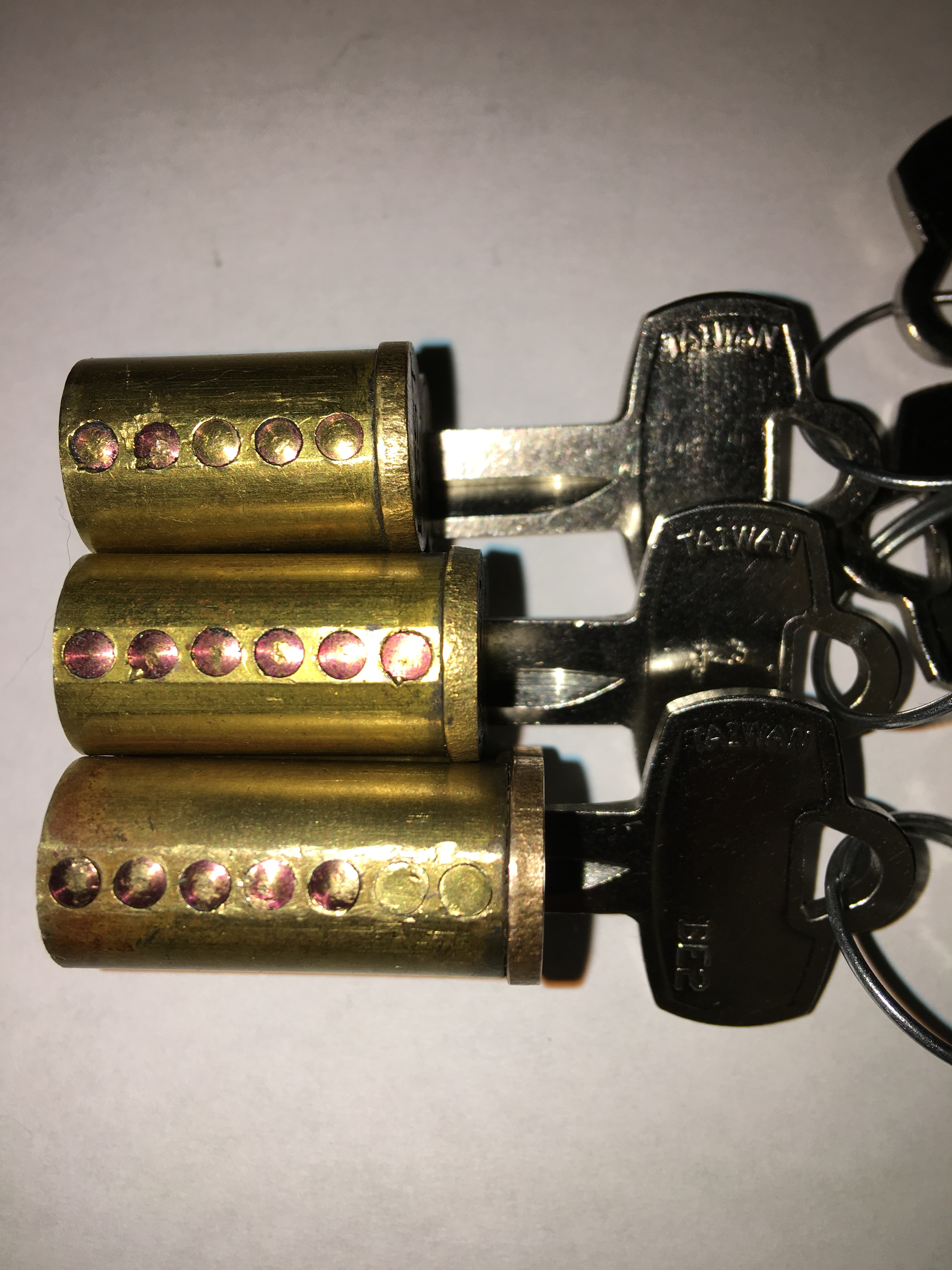 'best' brand ic cores in 5,6, and 7 pin lengths